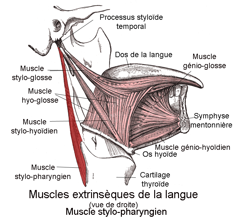 Muscle stylo-pharyngien. Anatomie humaine